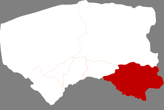 Locator map of Urat Front Banner in Bayan Nur, Inner Mongolia, China